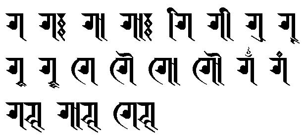 This is an example of Vowel diacritic of Ranjana script.